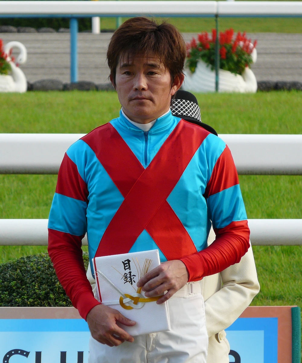 Futoshi-Komaki20111029